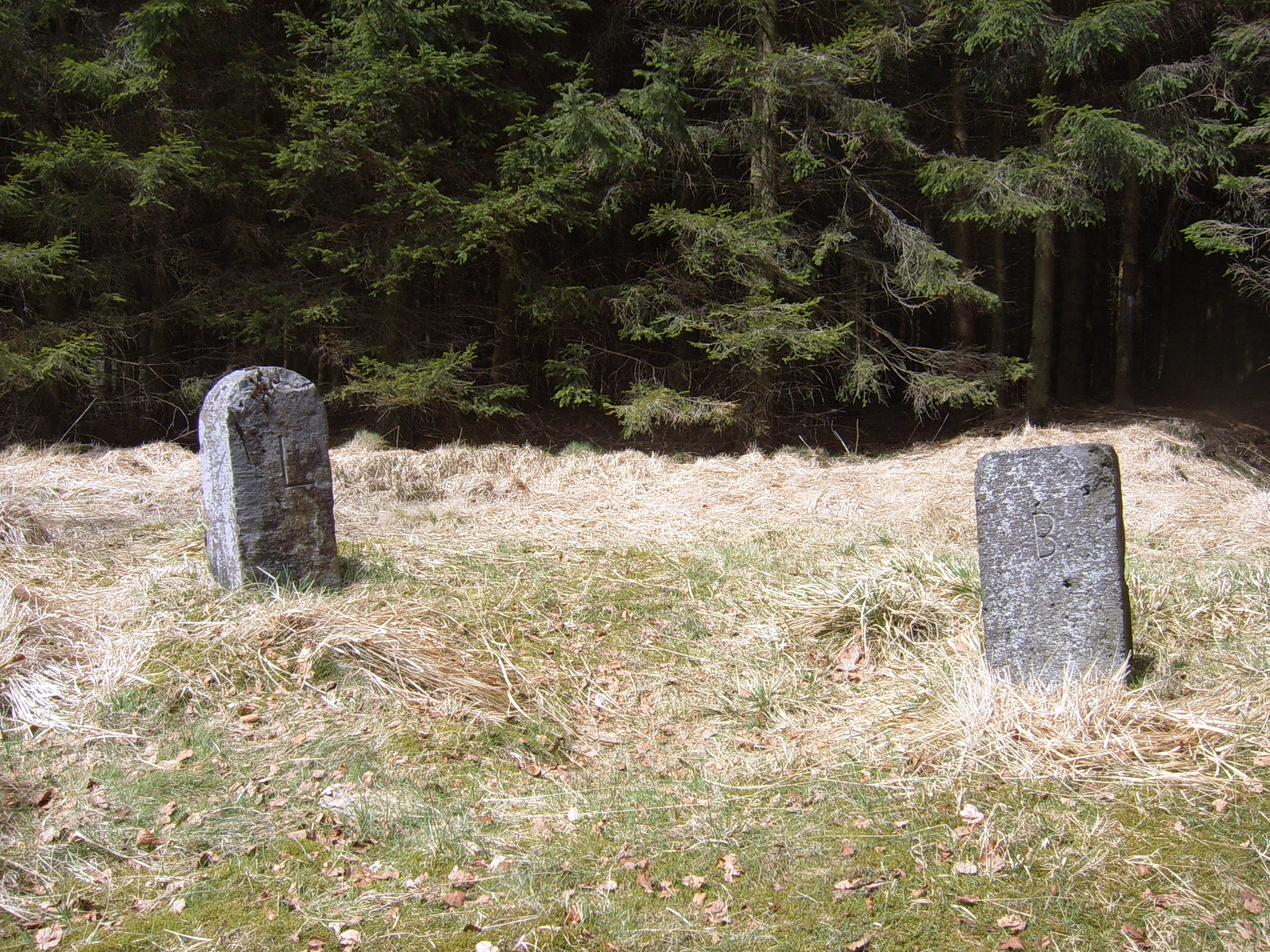 Boundary stones between Luxemburg and Juliers / Jüllich (until XVIIIth century), and between Belgium and Germany (until 1956).